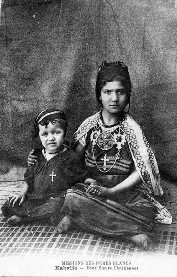 Two Christian sisters. Kabylie, Algeria.